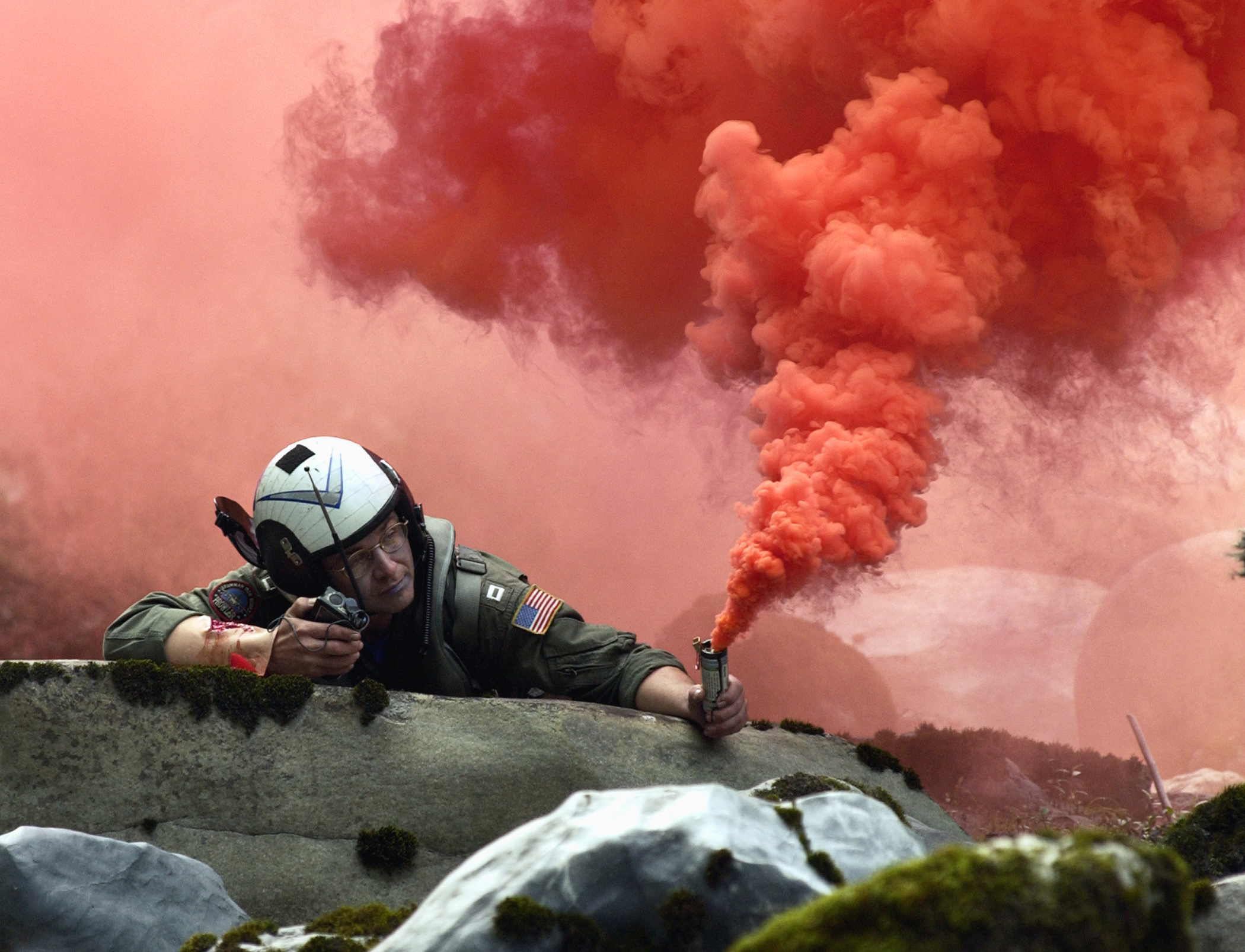 Lyman, Wash. (Sept. 23, 2003) -- Lt. Nick Vande Griend, assigned to Electronic Attack Squadron One Three Nine (VAQ-139), simulates a survivor of an ejection scenario. Lt. Vande Griend "pops a smoke" and uses his radio to communicate with a Naval Air Station Whidbey Island Search and Rescue (SAR) helicopter. SAR is conducting its annual week long SAR Exercise designed to enhance the rescue and survival skills of pilots and aircrew. U.S. Navy photo by Photographer's Mate 2nd Class Michael B.W. Watkins. (RELEASED)